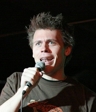 Headshot of Christian Finnegan.